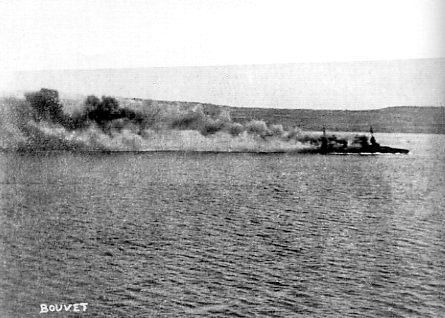 Photo capturing the last moments of the French battleship Bouvet which struck a mine in the Dardanelles on 18 March 1915, capsized and sank within two minutes, killing over 600 men. A caption in L'illustration sets the time of the image as 13:58 on 18 March 1915 and states that the photograph was taken from an English ship.